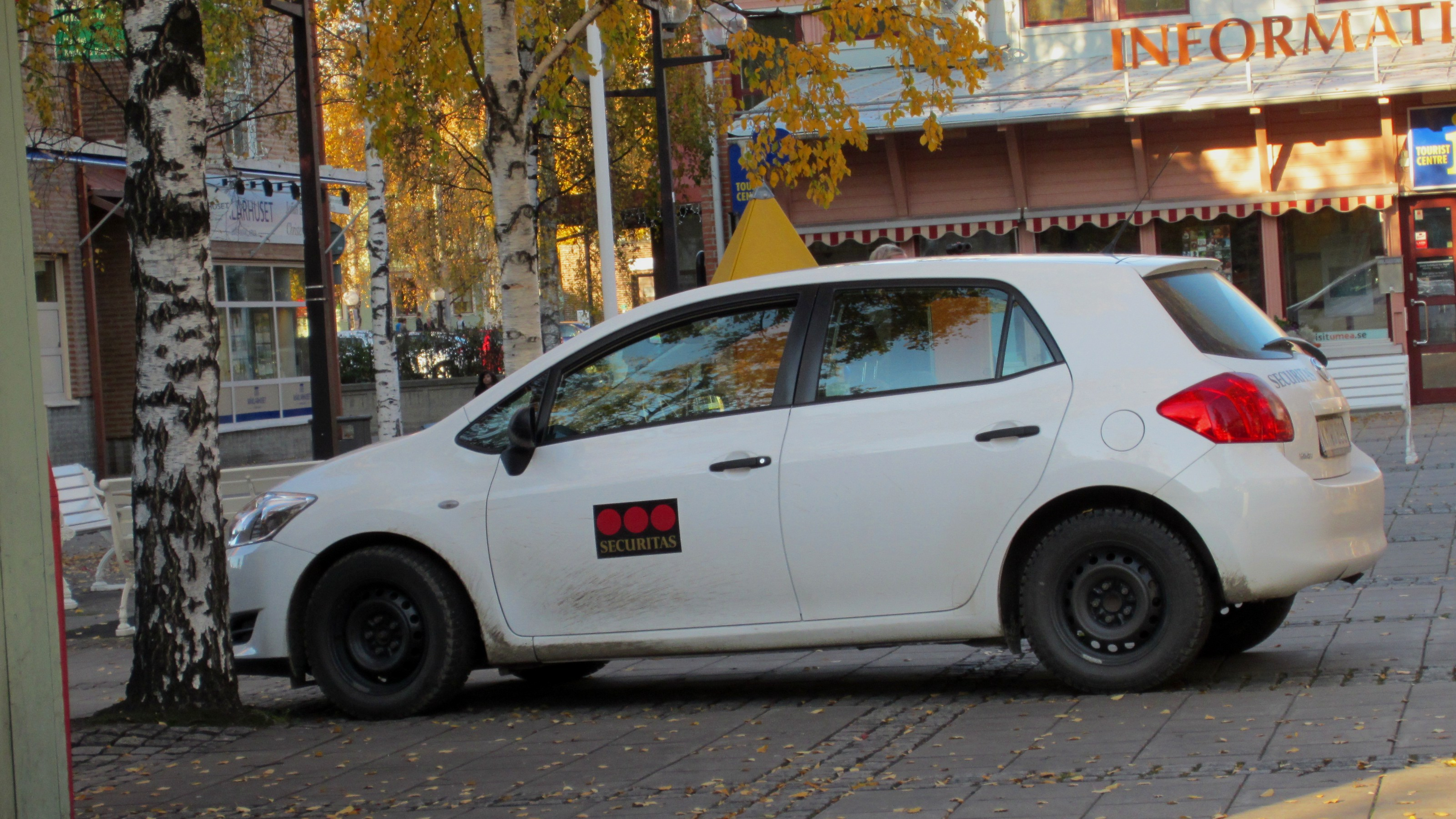 Securitas car in Umeå, Sweden.